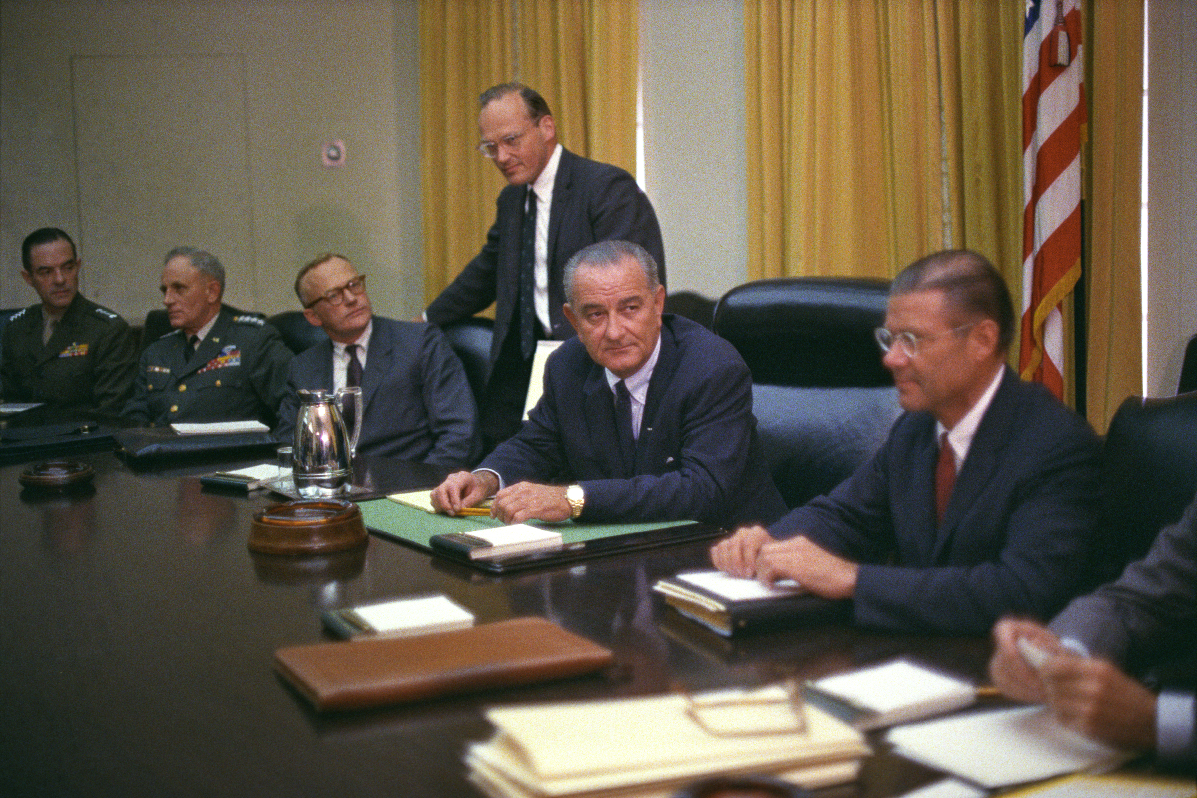 Seated at table, posing for camera (L-R): Gen. Wallace Greene, Gen. Harold K. Johnson, Sec. Stanley Resor, McGeorge Bundy (standing), Pres. Lyndon B. Johnson, Sec. Robert McNamara